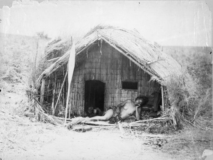 Maori woman in the porch of a wharepuni